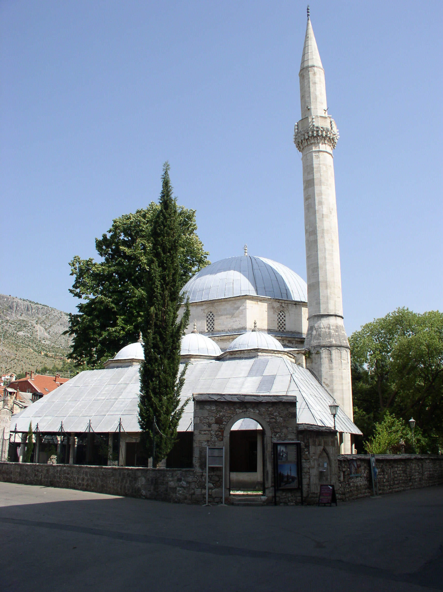 Karadjoz-Bey's Mosque in Mostar in Bosnia and Herzegovina